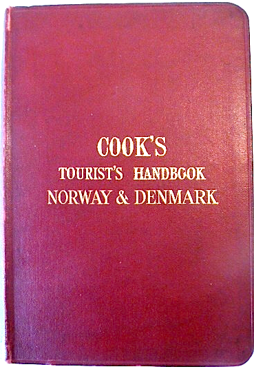 Cover of: Thomas Cook & Son (1907) Cook's Handbook to Norway and Denmark, with Iceland and Spitsbergen, London